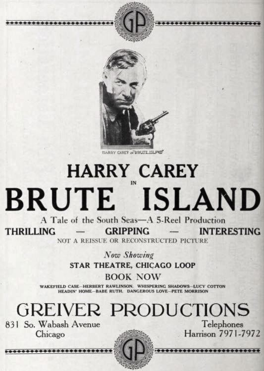 Advertisement for the 1921 reissue of McVeagh of the South Seas (1914) under its reissue title Brute Island with Harry Carey, on page 32 of the October 6, 1921 Exhibitors Herald.